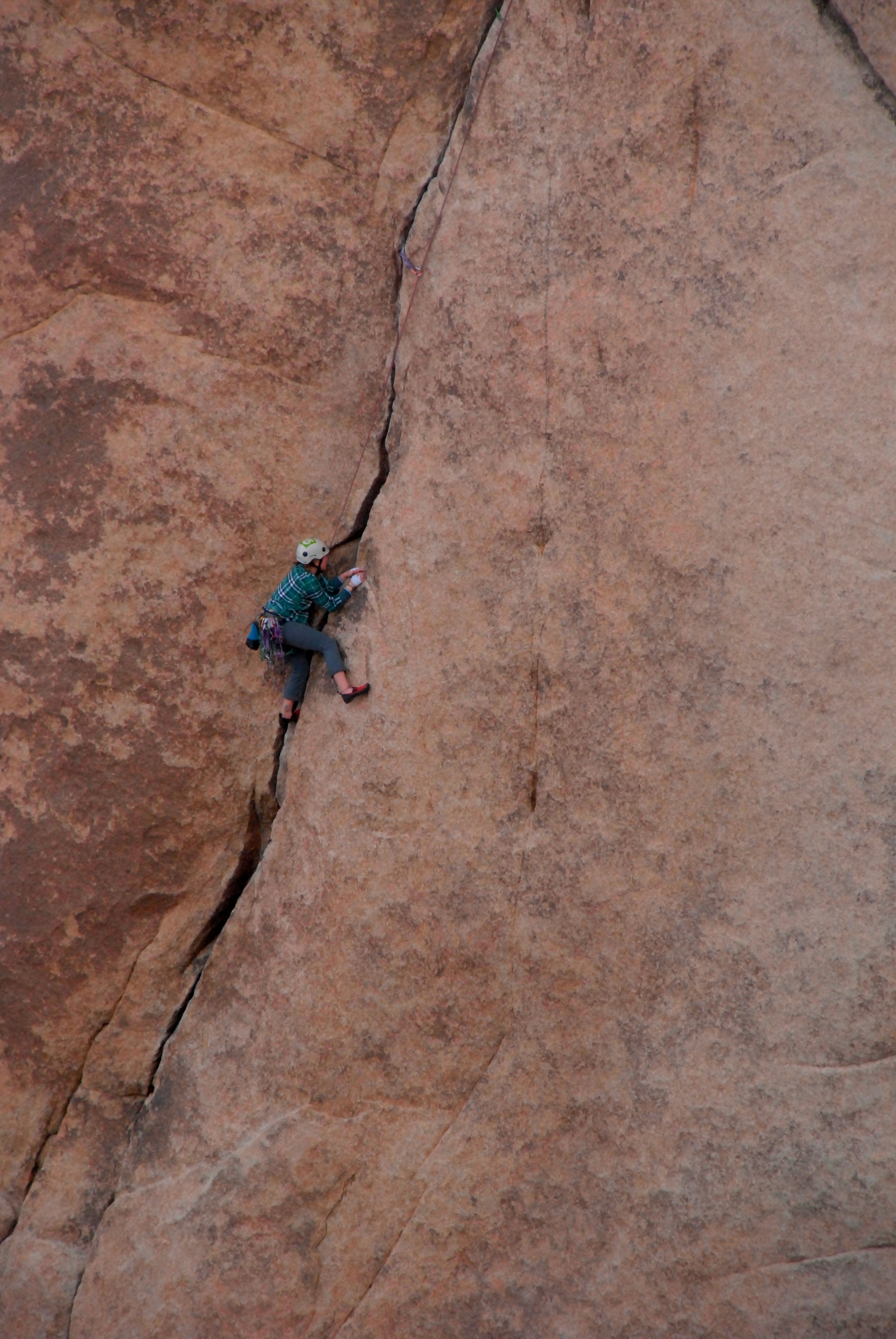 Joshua Tree National Park: Climbing Illusion Dweller 5.10b route on The Sentinel Rock at The Real Hidden Valey.